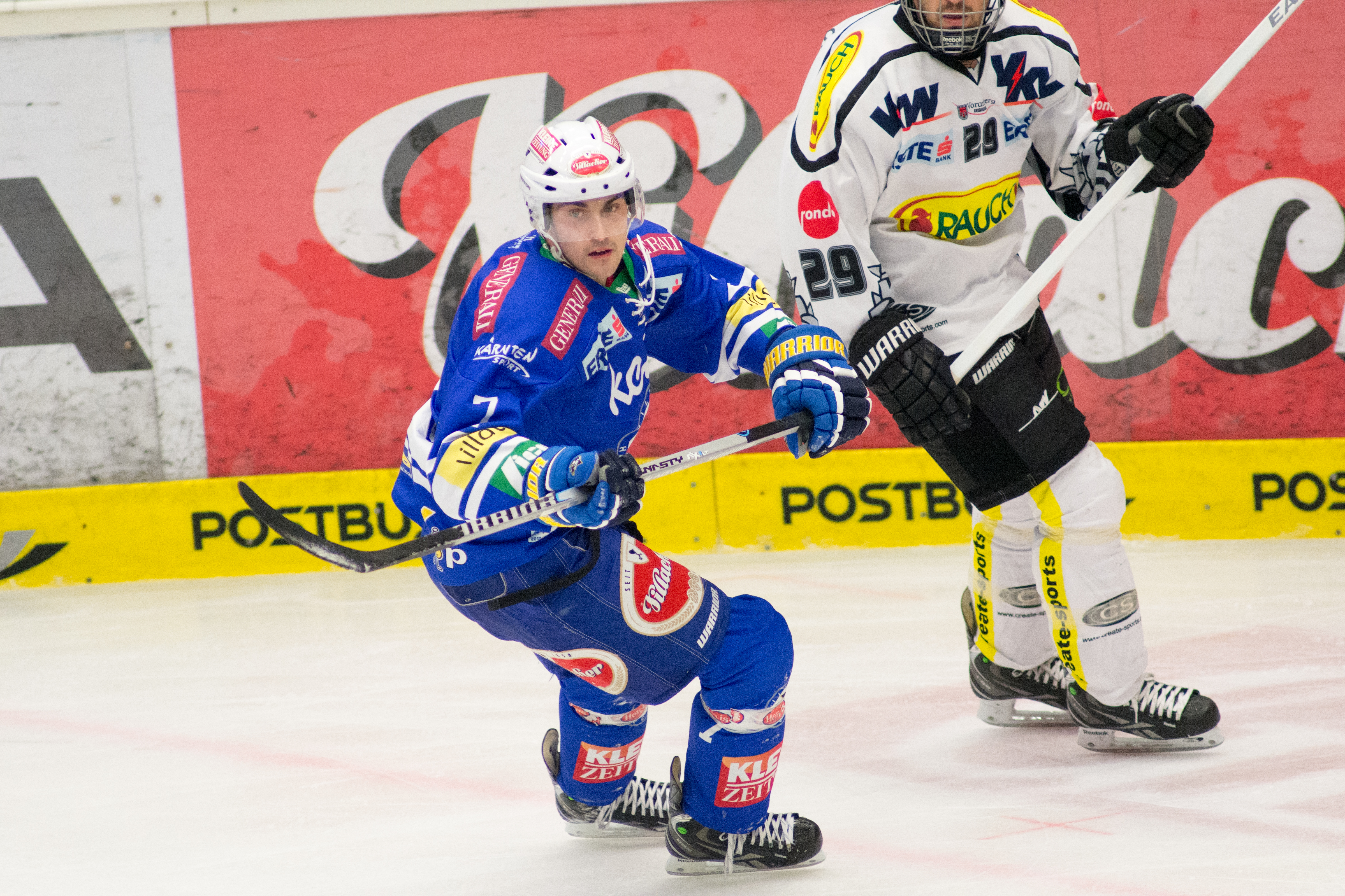 30.12.2013,Stadthalle Villach, AUT, EBEL, 61. Runde, EC VSV vs. Dornbirner EC, im Bild // frostworx Pictures © 2013, PhotoCredit: frostworx / Alex Micheu